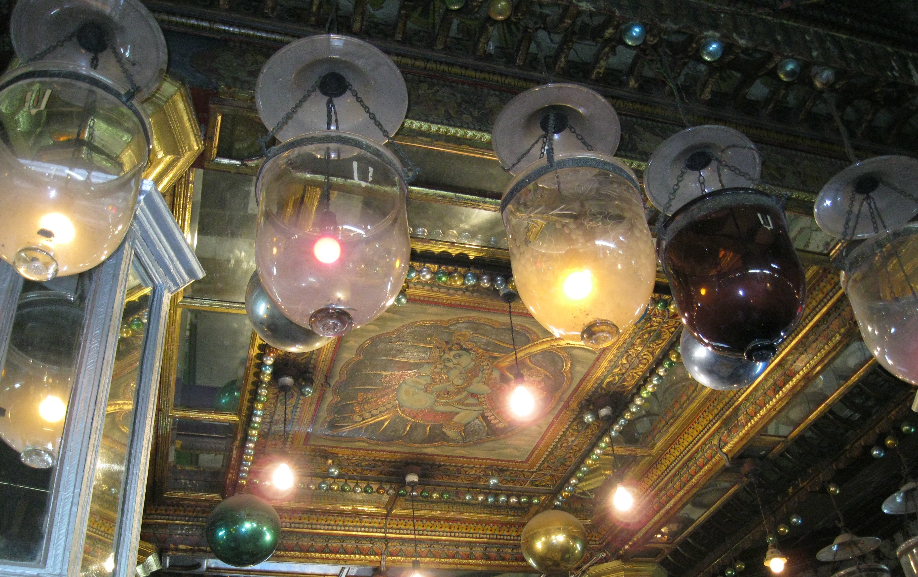 Krishna painting on the roof of mirror-hall.